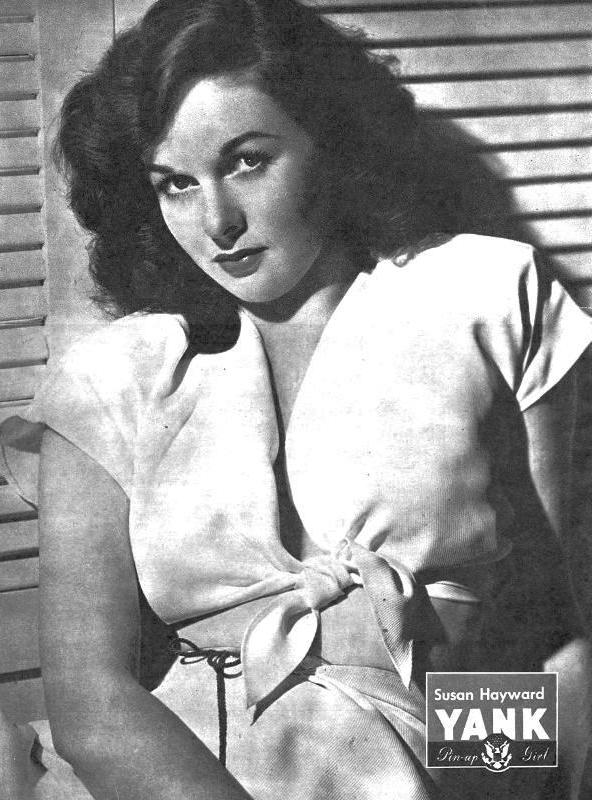 Pin-up photo of Susan Hayward for the Oct. 26, 1945 issue of Yank, the Army Weekly, a weekly U.S. Army magazine fully staffed by enlisted men.